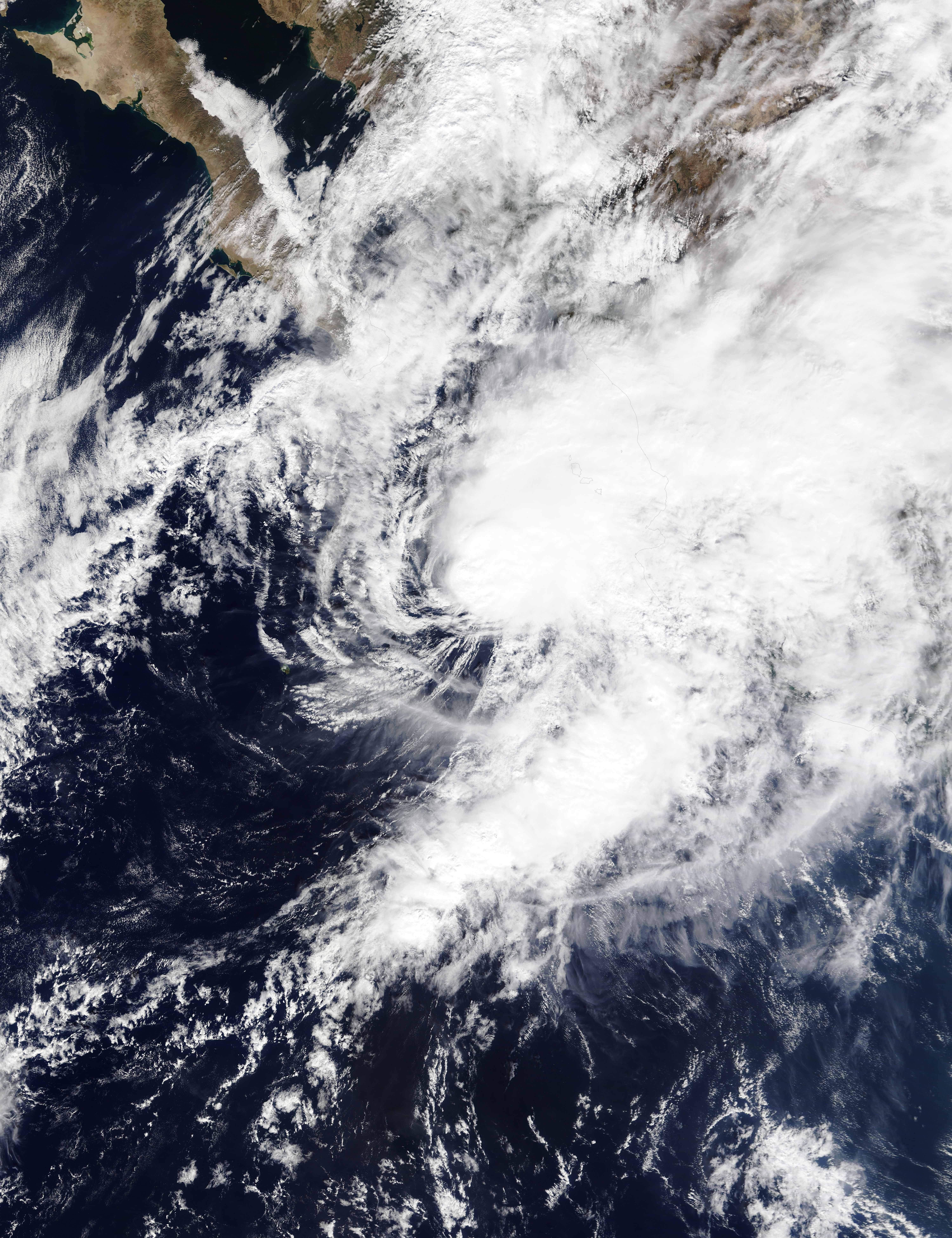 Hurricane Sandra (22E) over Mexico